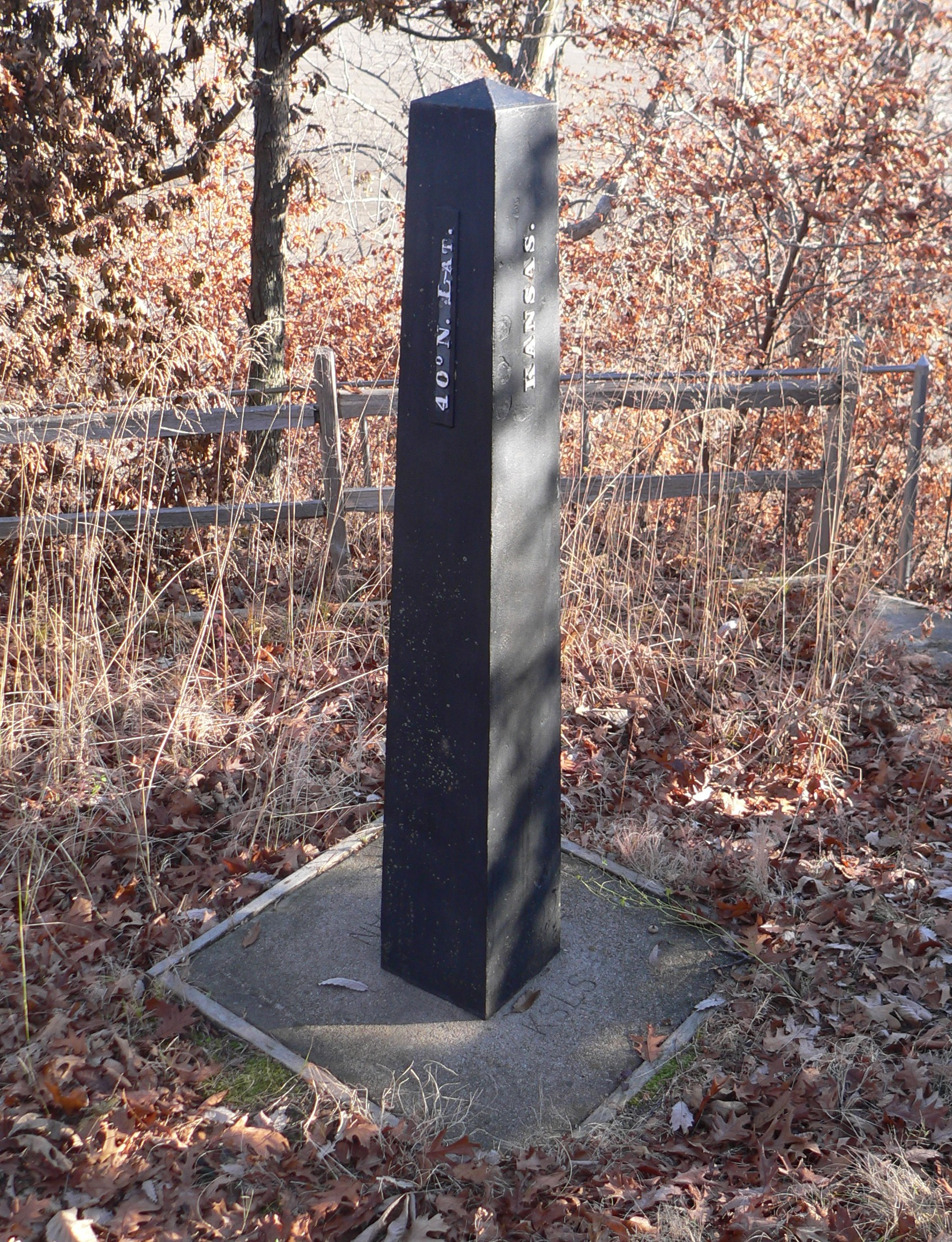 Survey monument RH00:062, located on 40th parallel (Kansas-Nebraska border), atop bluff near Missouri River and Kansas Highway 7; seen from the southwest. "Kansas" is inscribed on the south face; "40° N. LAT." on the west.